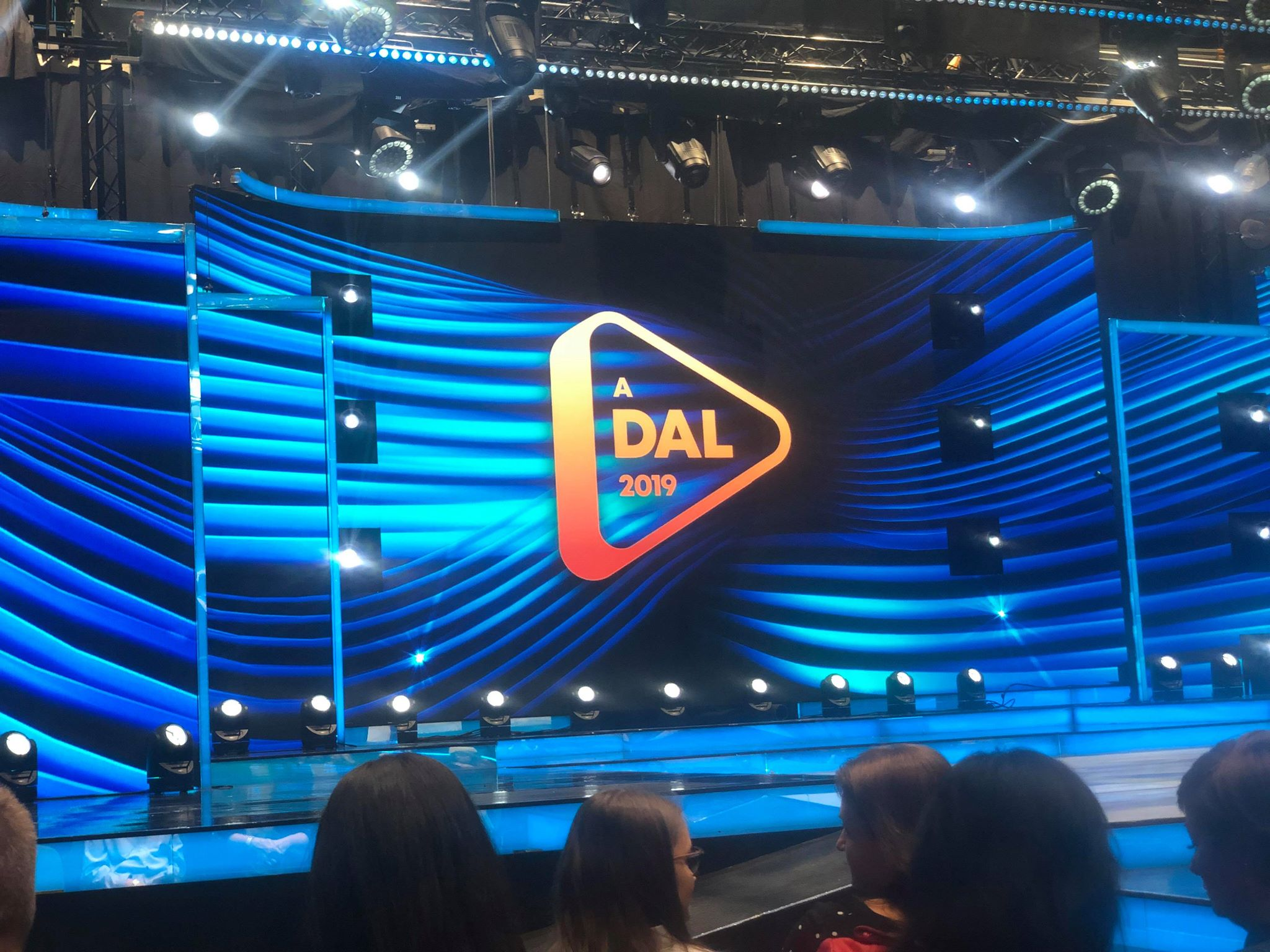 A Dal 2019 stage before the second semi-final